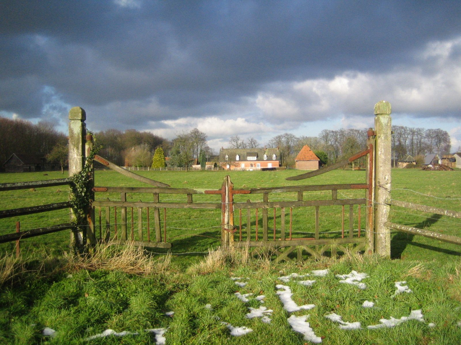 Crasville-la-Rocquefort, Seine-Maritime, Haute-Normandie, France Rural landscape